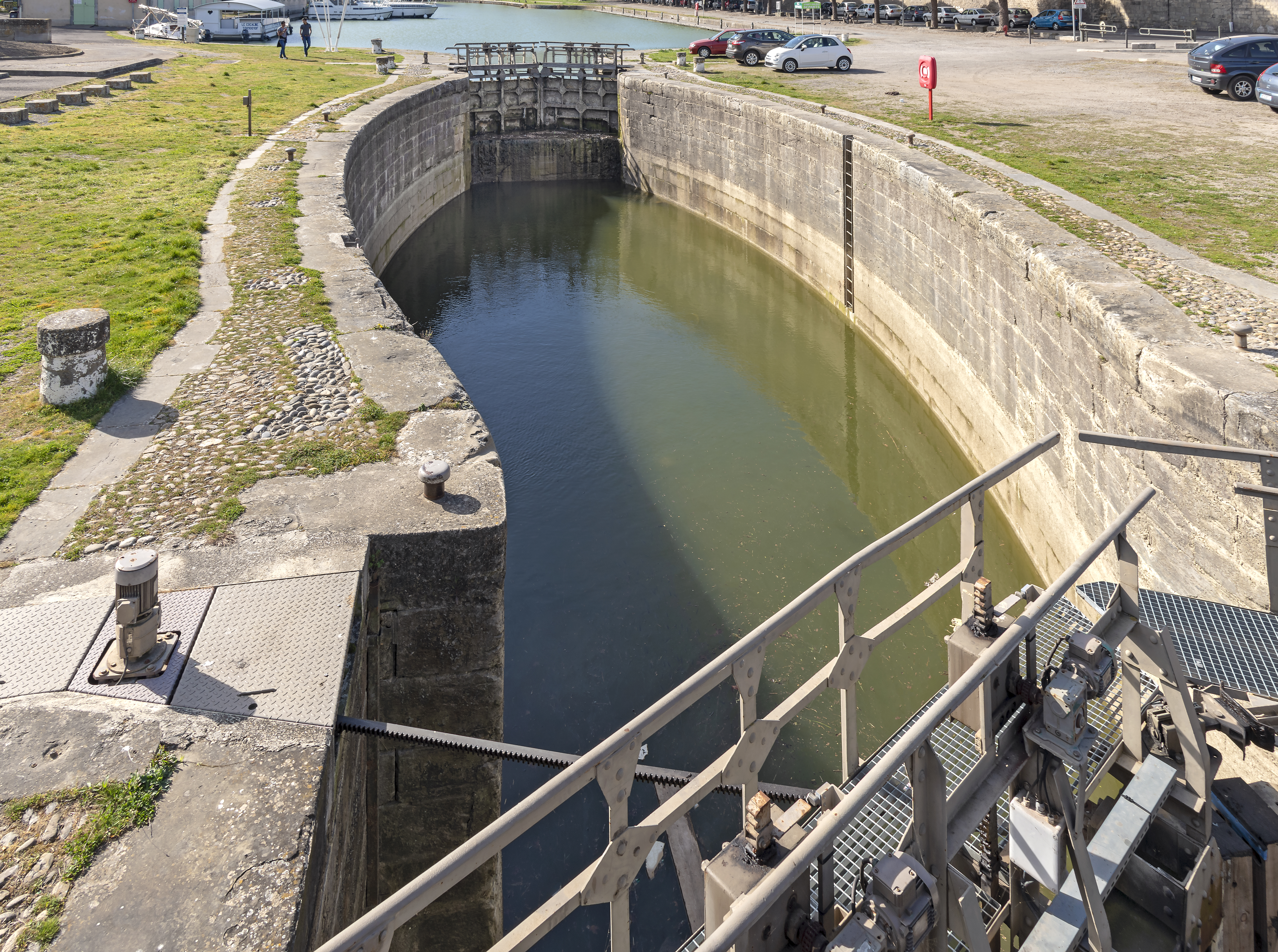 The lock of Carcassonne seen from the Marengo bridge